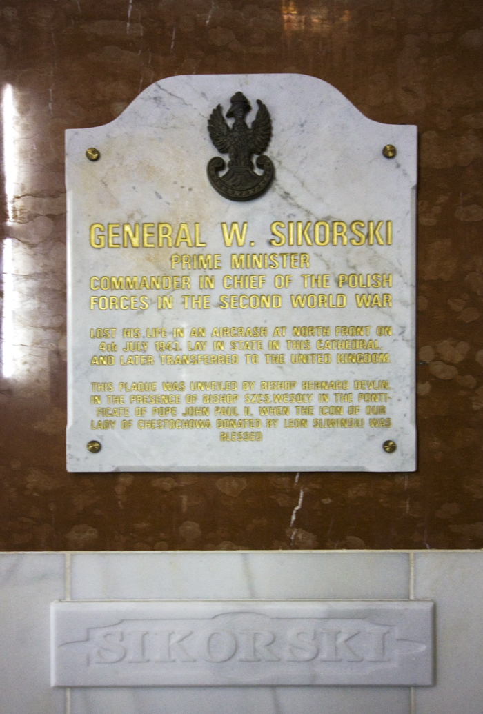 Plaque in memory of Polish Prime Minister Władysław Sikorski at the Cathedral of St. Mary the Crowned, Gibraltar.